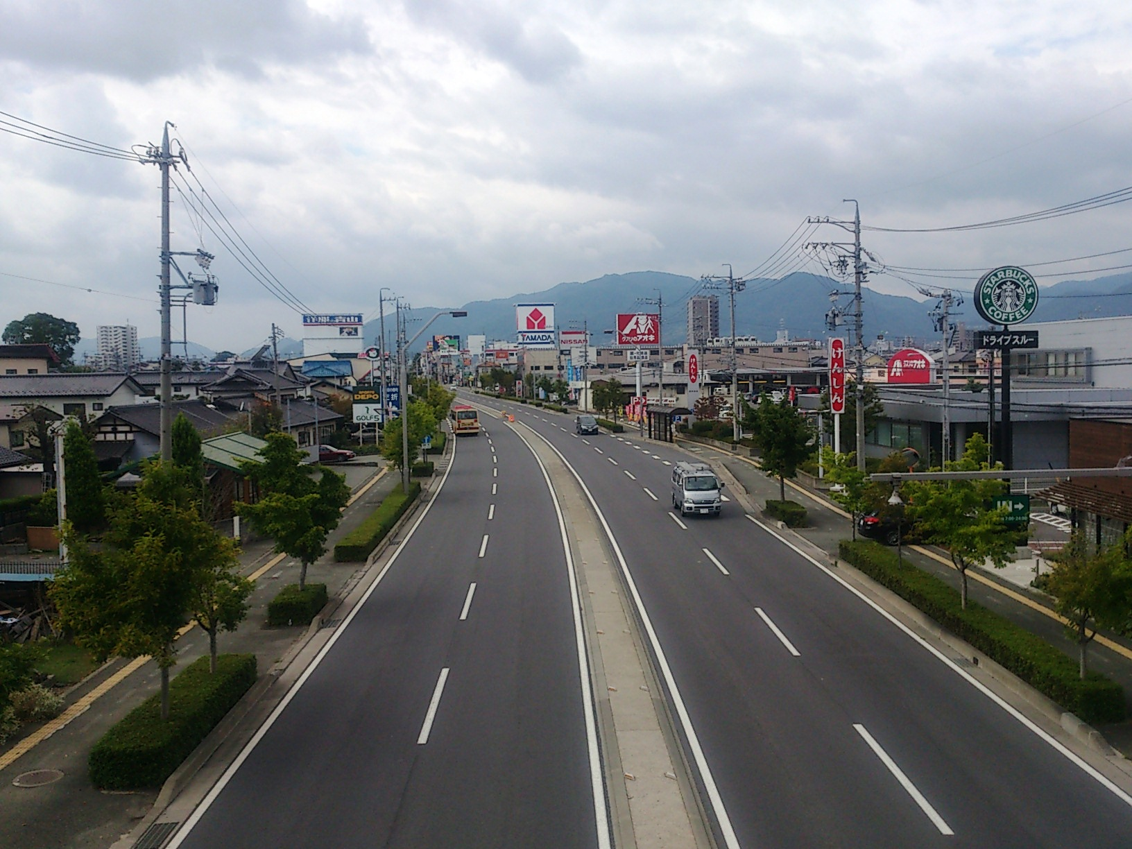 The Nagano Prefectural Road Route 58 in Minamitakada, Nagano City, view towards Nagano Station